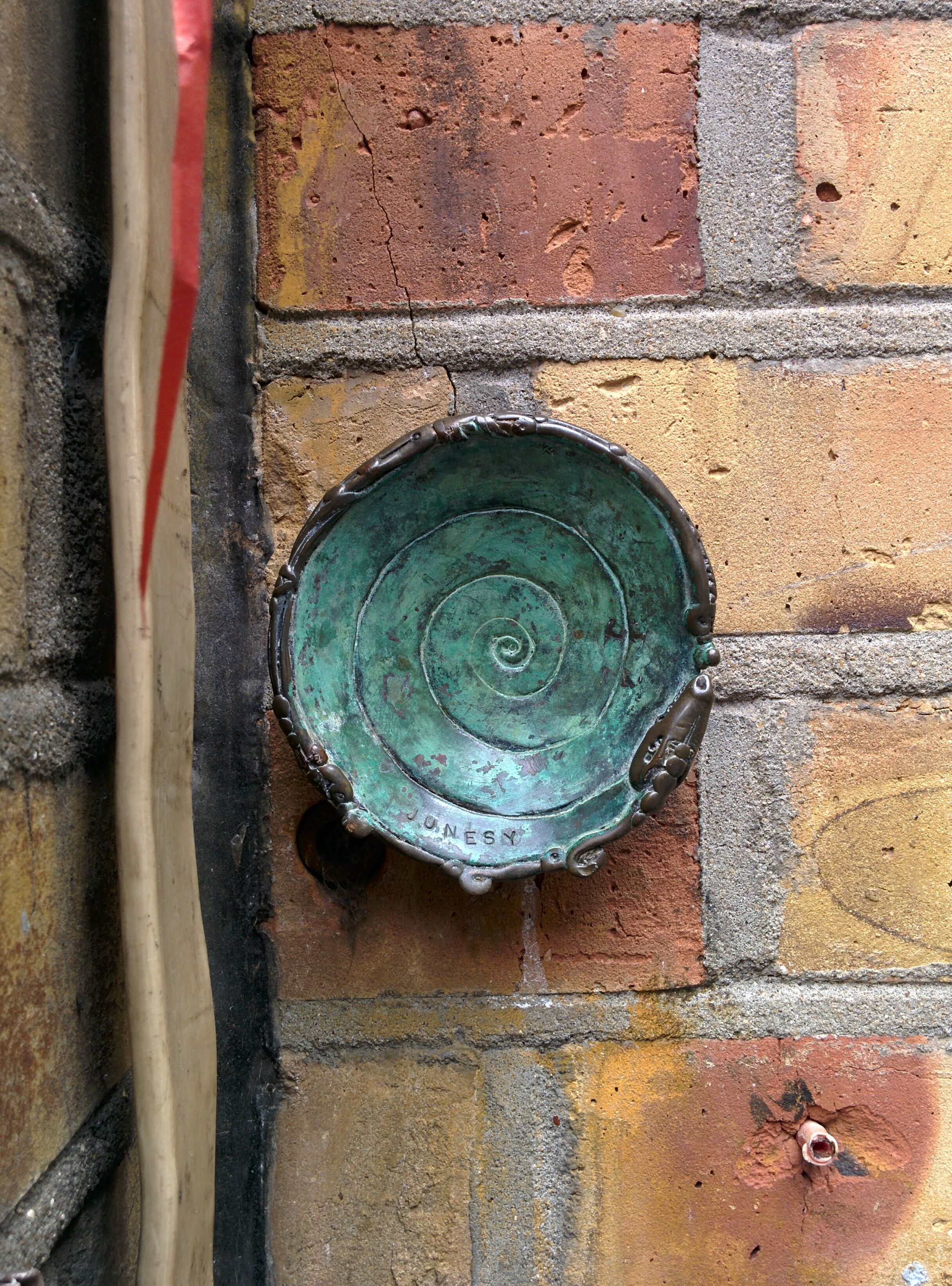 A bronze work by Jonesy on a wall in Brick Lane (London). Diameter about 8 cms.